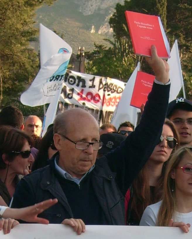 Salvatore Borsellino with "red diary", event in memory of Peppino Impastato, Cinisi 9 may 2010